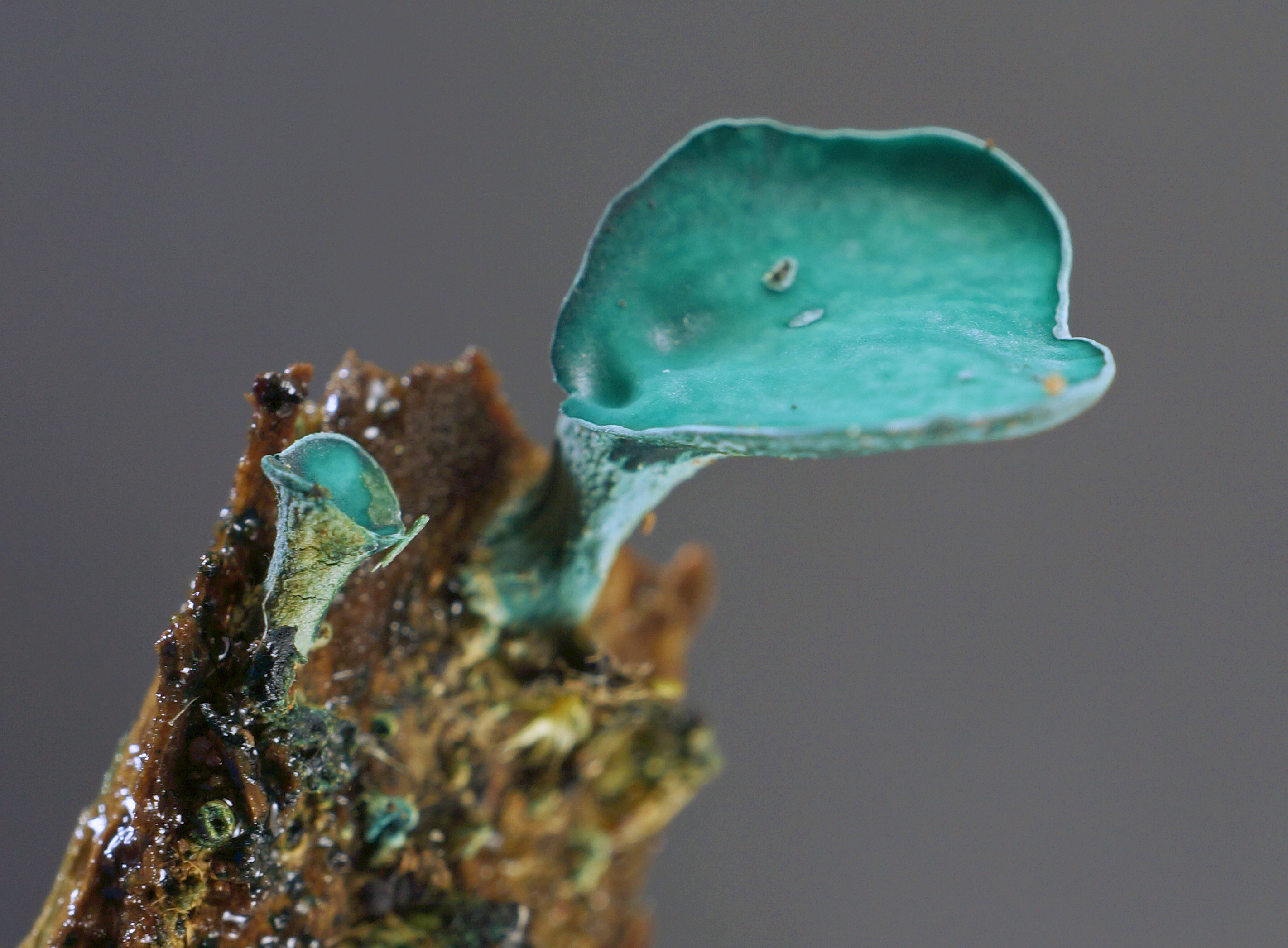 Chlorociboria aeruginascens, Wilson River Highway, Oregon, USA